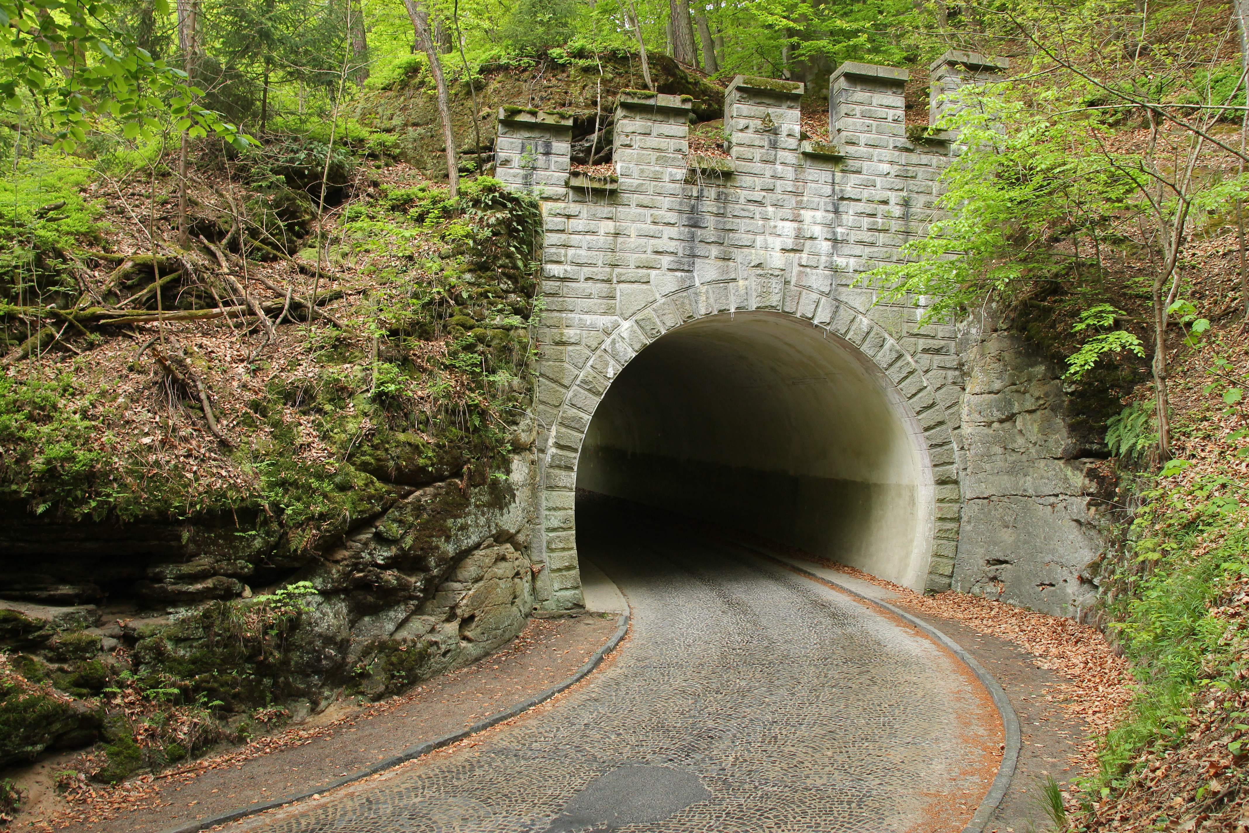 Kokořín Tunnel, Kokořín